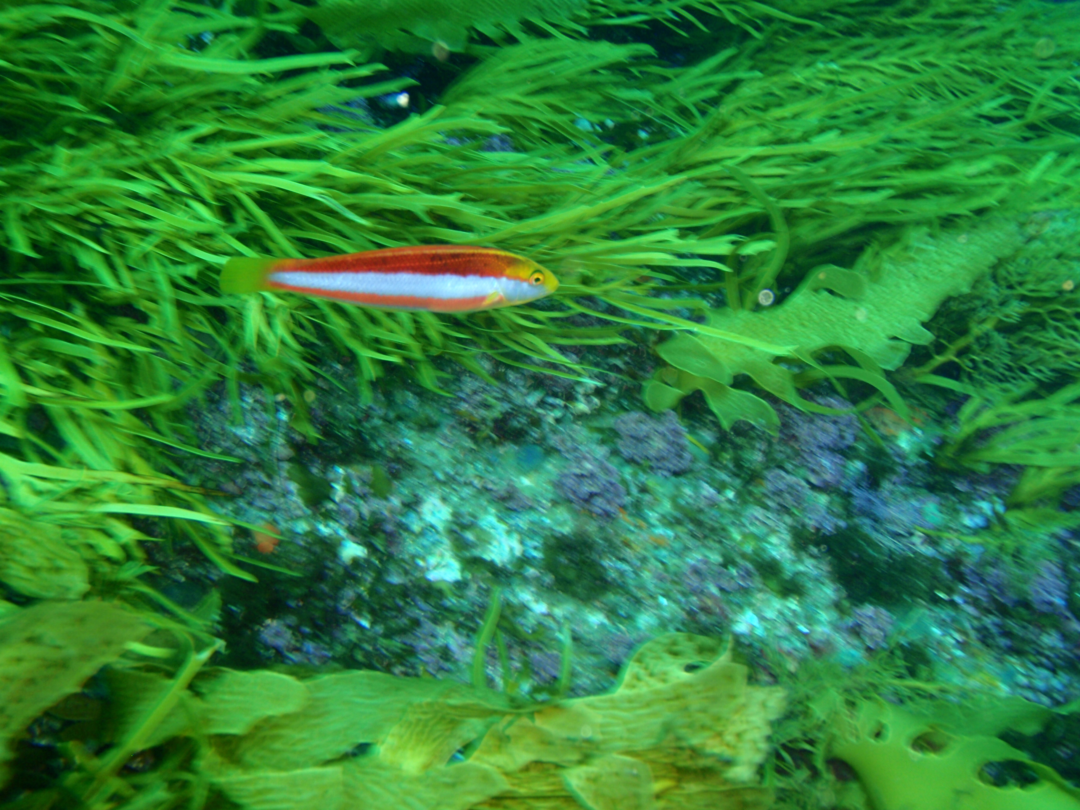 Western Maori wrasse Ophthalmolepis lineolata at Breaksea Cove in King George Sound, Western Australia